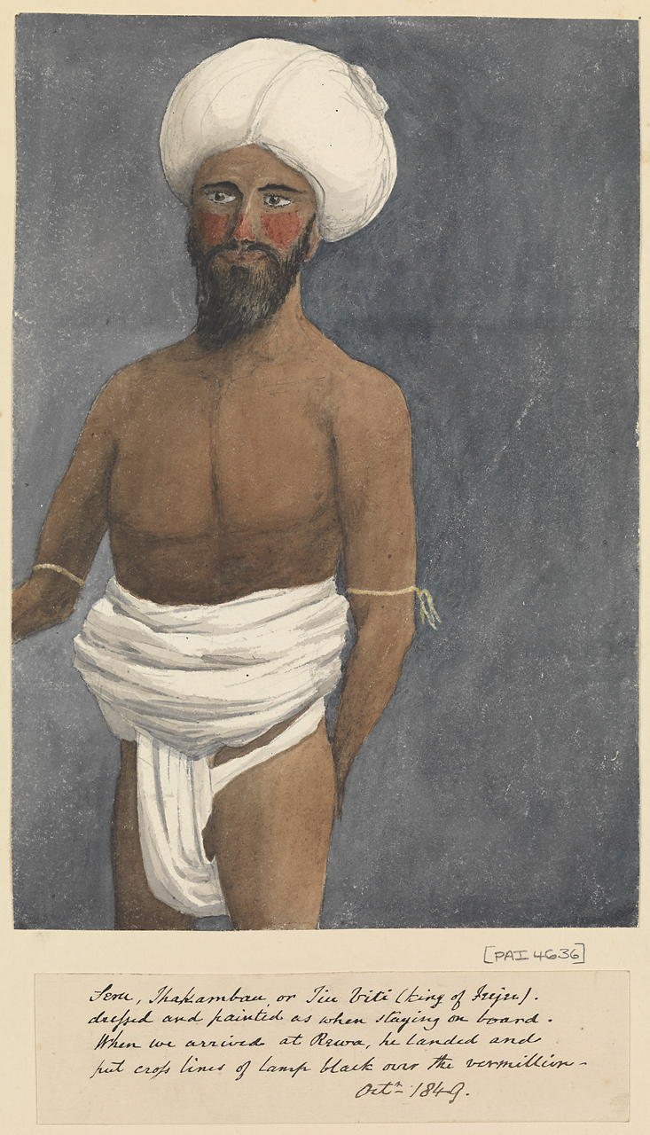 Seru Thakombau [Seru Epenisa Cakobau], 1815 - 83; King of Fiji, 1852-74.